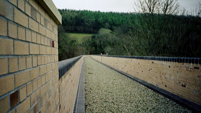 Chelfham Viaduct - the new decking and parapets, 2003 (photo by M de Young)